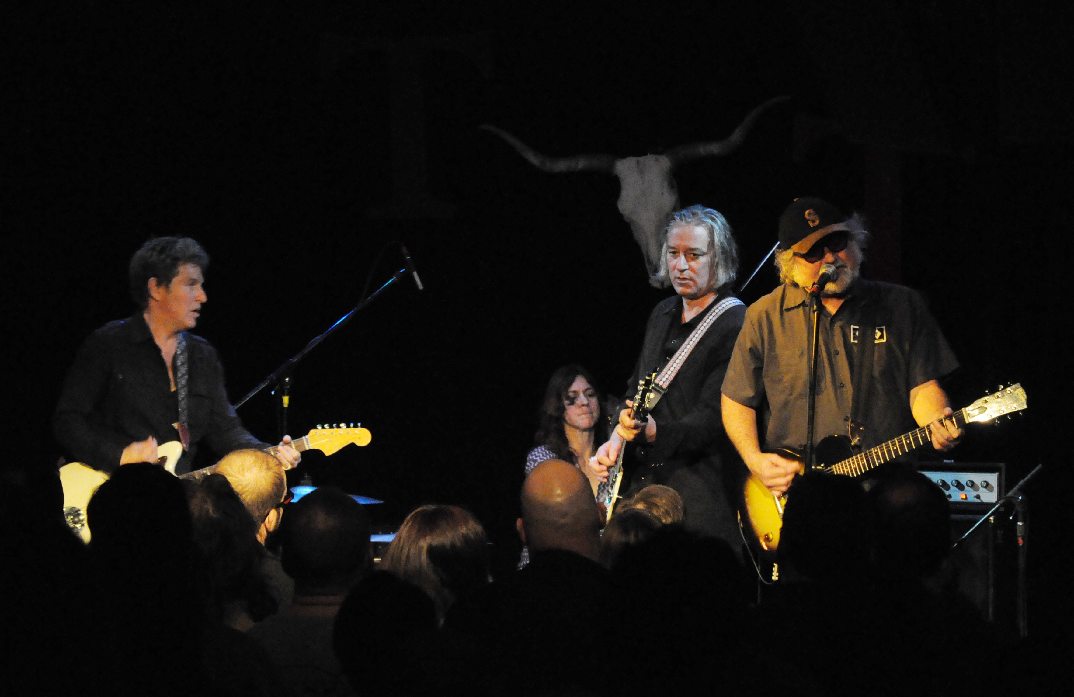 The Baseball Project perform at the Tractor, Ballard, Seattle, Washington. Left to right: Steve Wynn, Linda Pitmon, Peter Buck, Scott McCaughey.